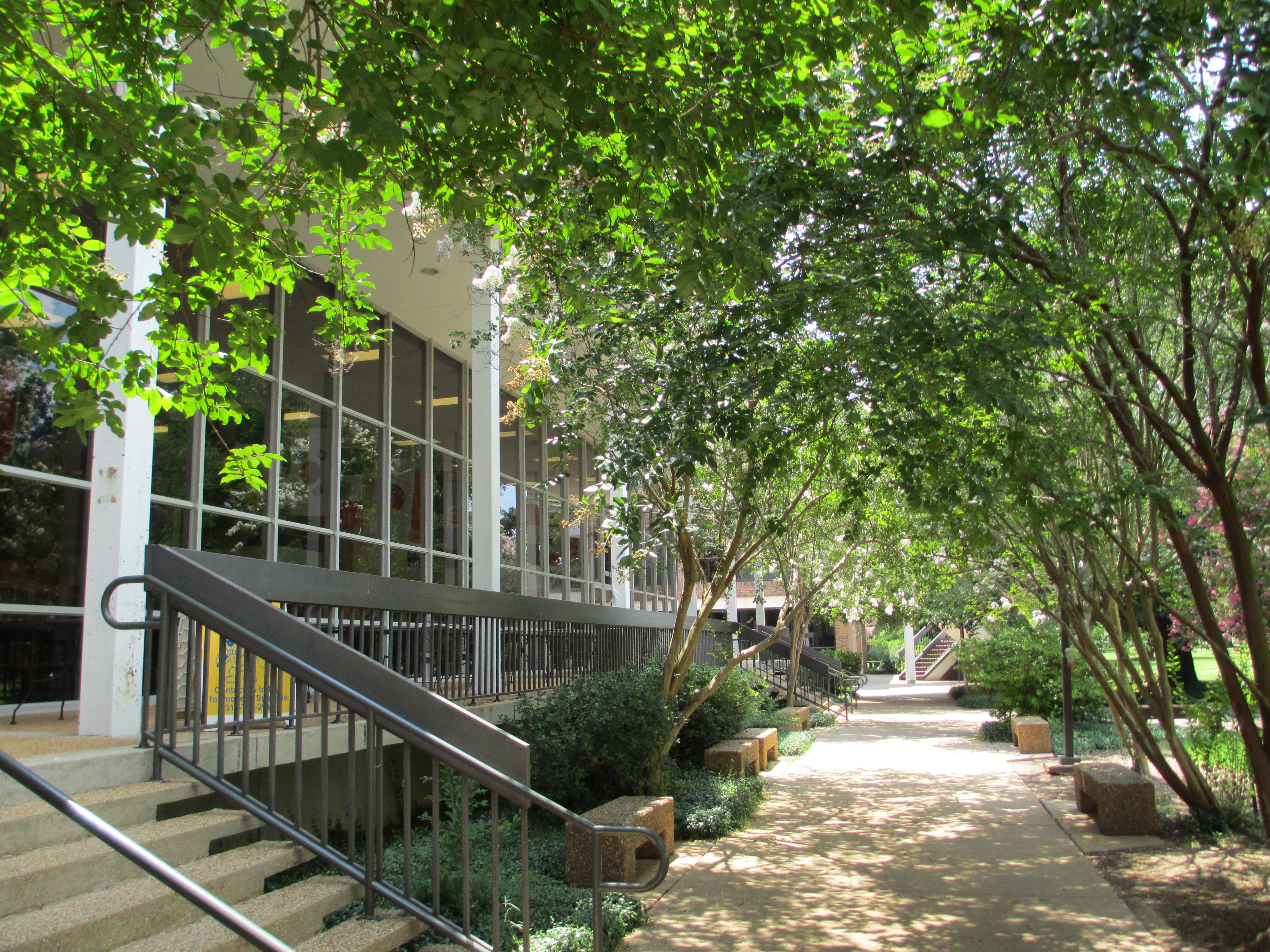 LSUA Student Center, July 2013